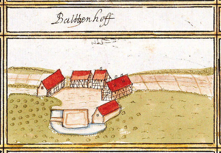 View of Balzhof, abandoned place near Cleebronn, from the forest register books created by Andreas Kieser